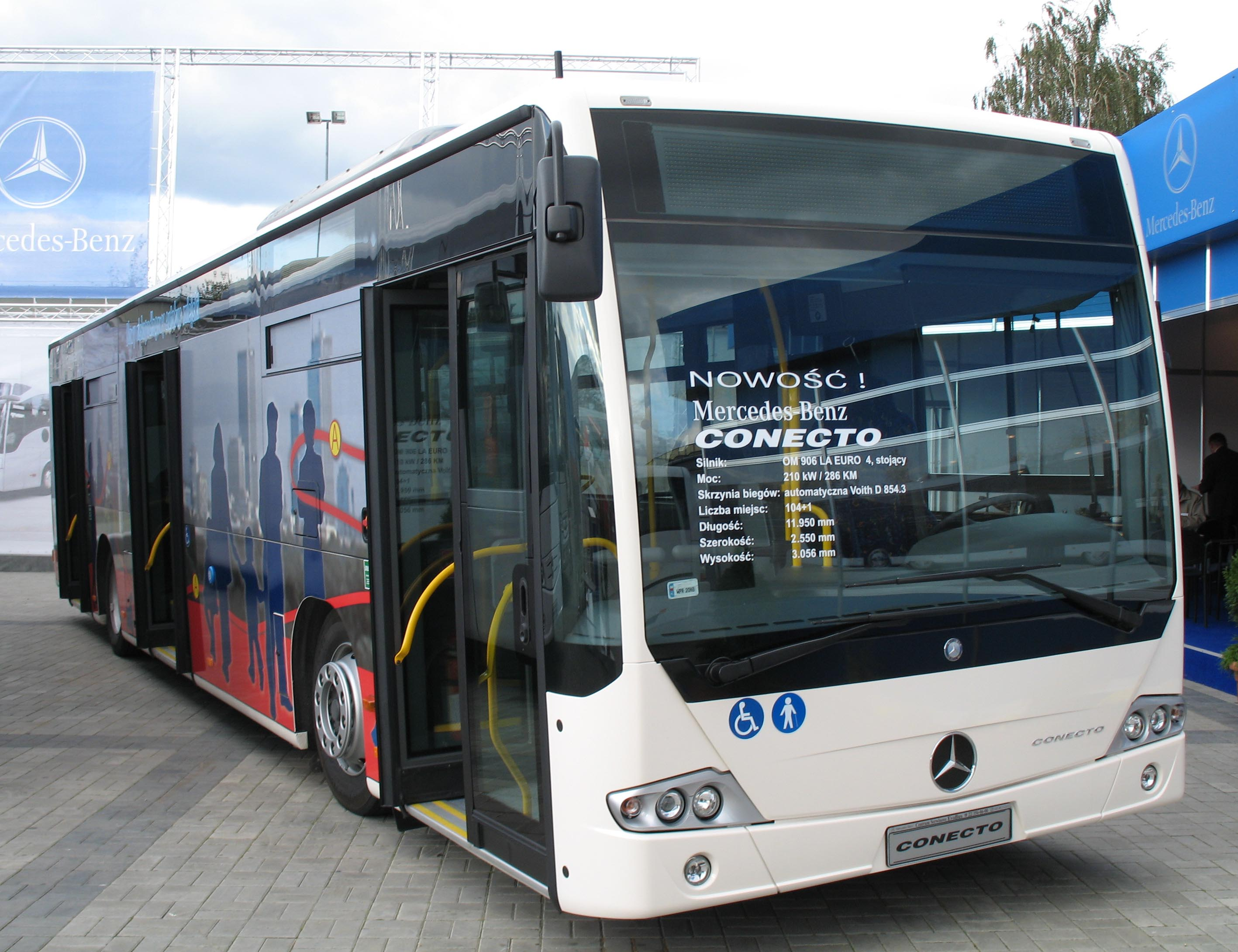 Mercedes-Benz Conecto bus in Kielce, Poland. Transexpo 2007.